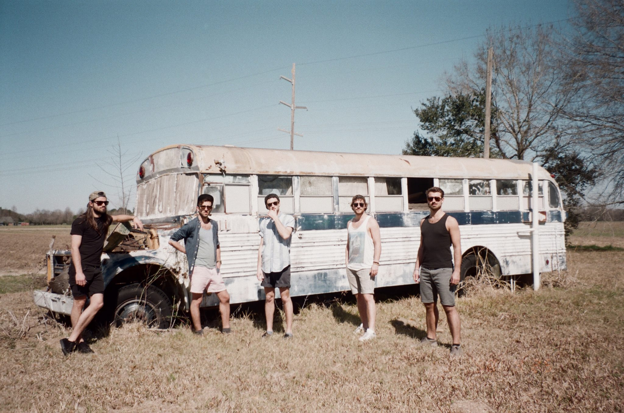 VALAIRE